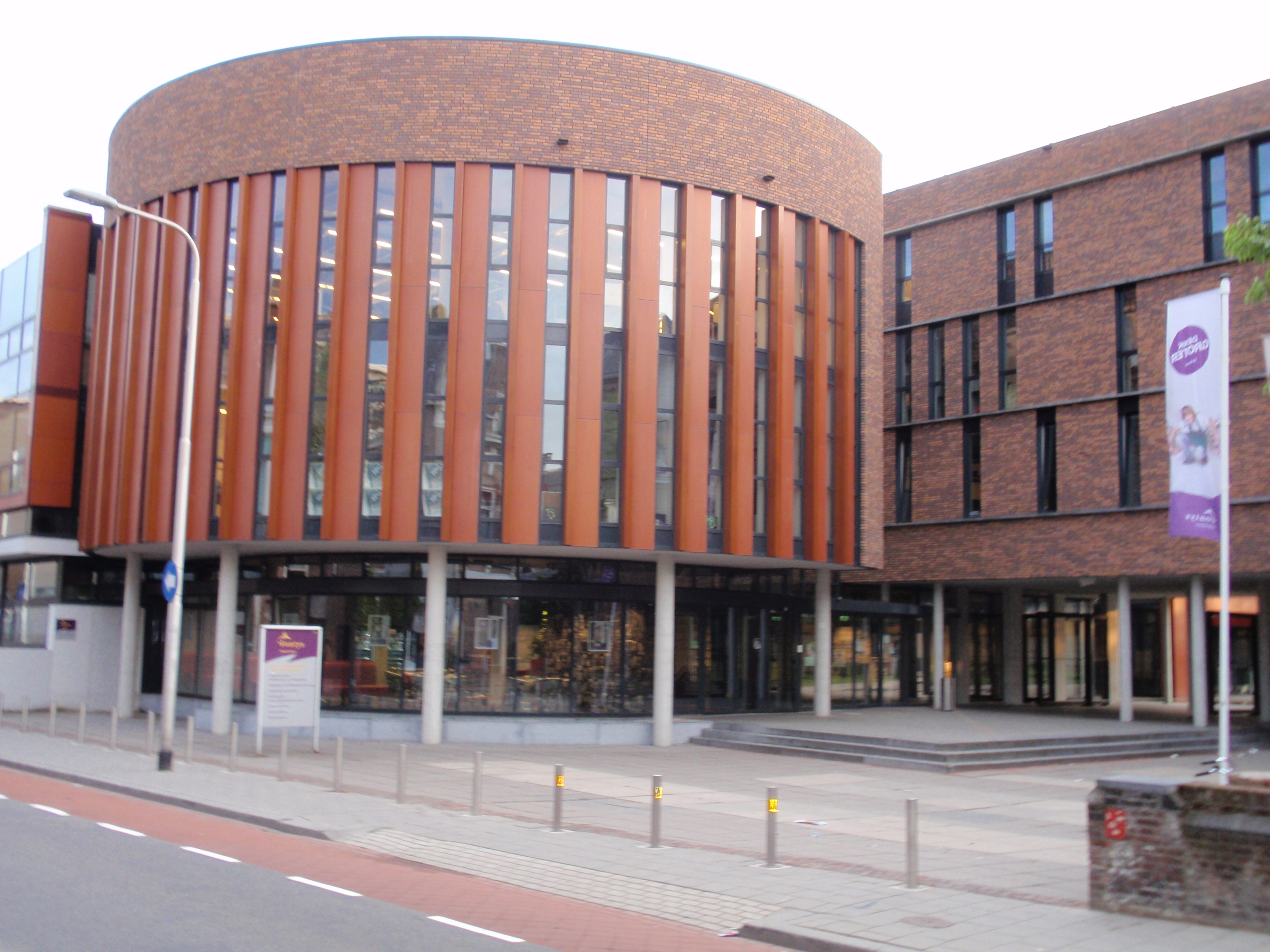 Rockacademy Tilburg